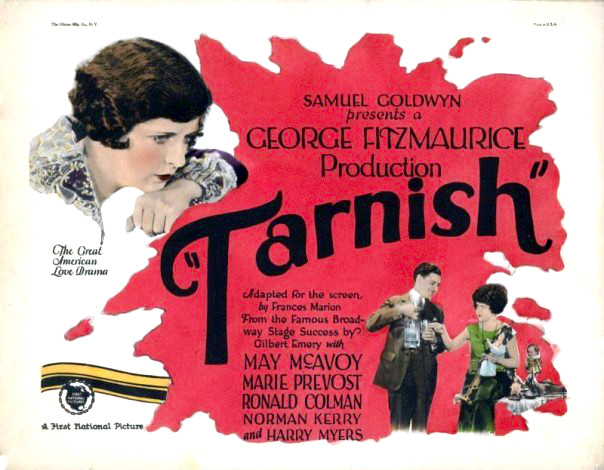 Lobby card for the American drama film Tarnish (1924). There are no copyright marks. At left top is The Ullman Mfg. Co., NY (they printed the card). At top right is Made in USA.